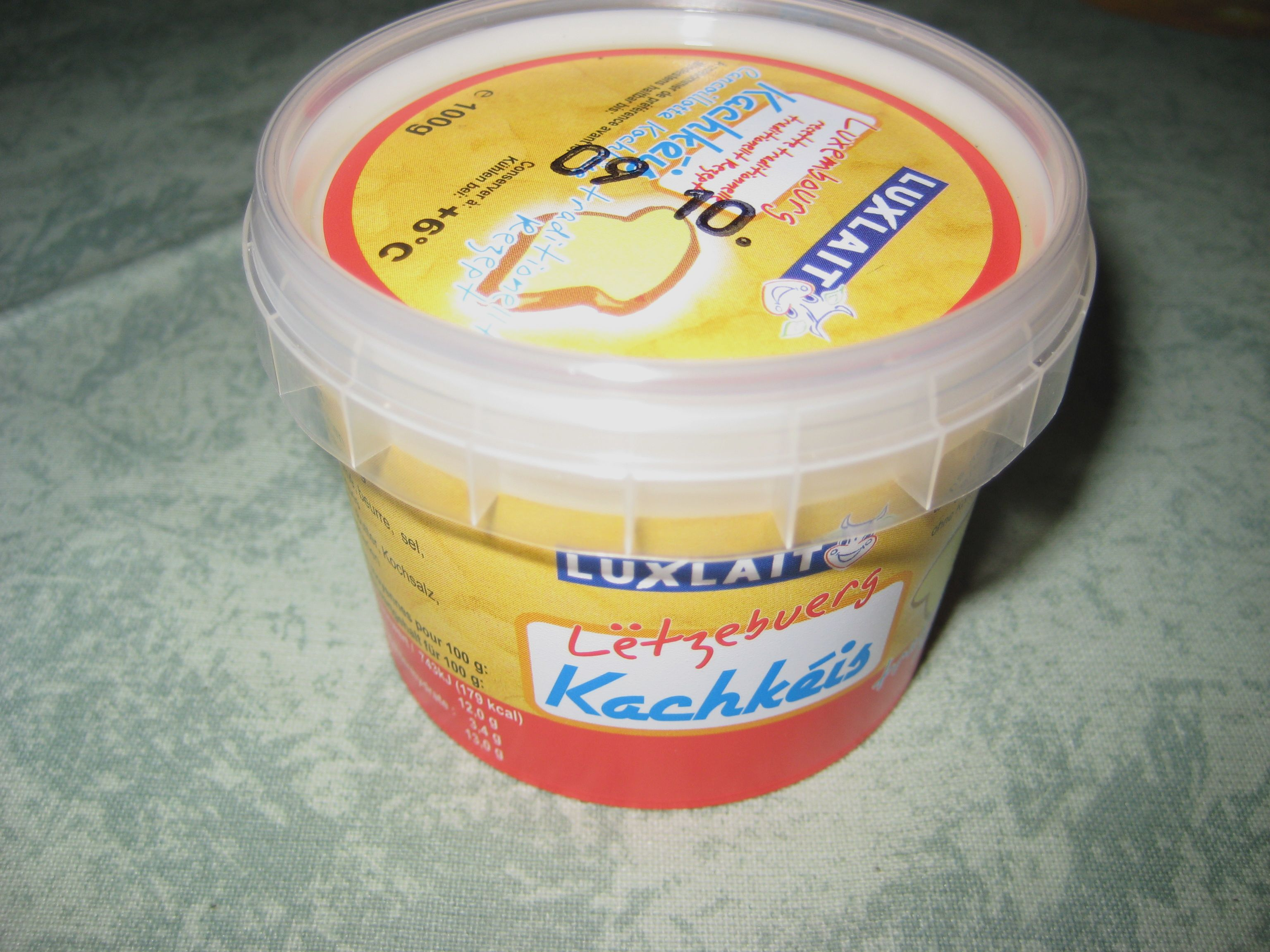 Cancoillotte